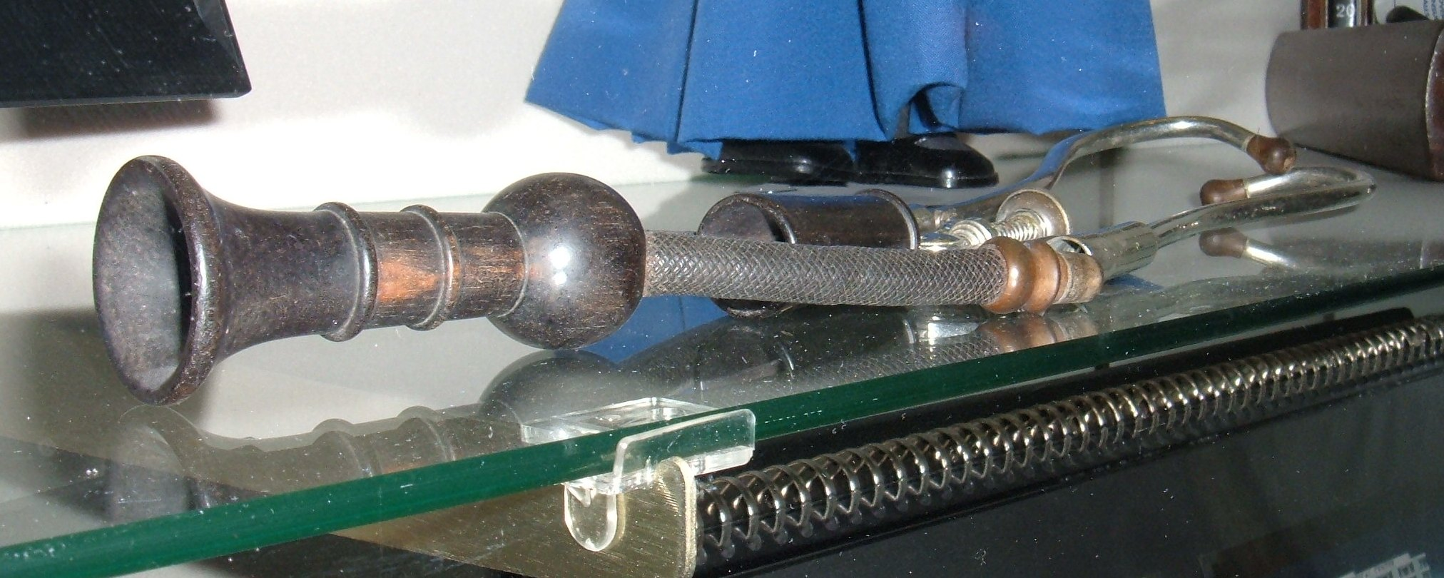 Antique stethoscope, on display in the lobby of Seton Medical Center in Daly City, California.